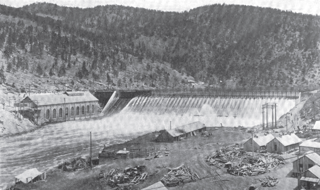 Hauser Dam, after its reconstruction in 1908, in Lewis & Clark County, Montana. The original steel dam, built in 1907, collapsed on April 14, 1908. The new concrete dam seen here was built in the same location.